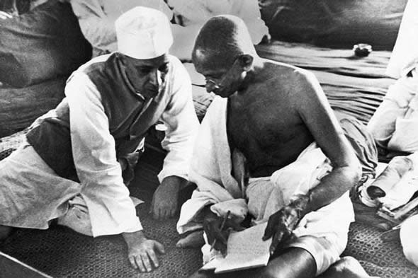 Pandit Nehru and Mahatma Gandhi during the All-India Congress Committee session, Bombay, August 8, 1942, when the "Quit India" resolution was adopted, calling for the immediate dissolution of British rule. The following morning, British authorities arrested Gandhi and Nehru, along with other top Indian political leaders.